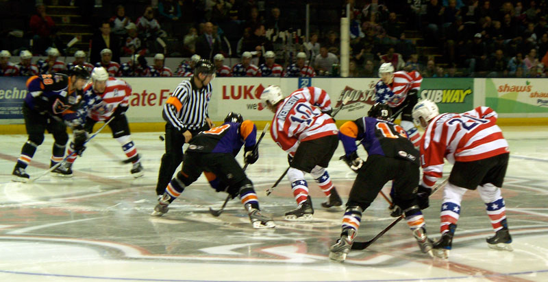 Tim Kennedy (10) gets set to take the opening faceoff of the second period; Portland Pirates vs. Philadelphia Phantoms